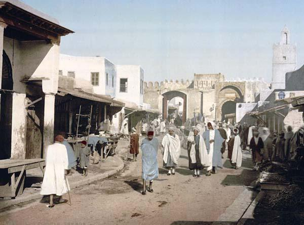 Photograph of a street in Kairouan, Tunisia. This color photochrome print was taken in 1899 in Kairouan, Tunisia.